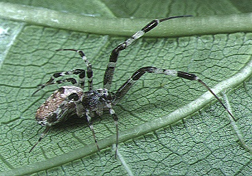 female Zosis geniculatus from Okinawa.